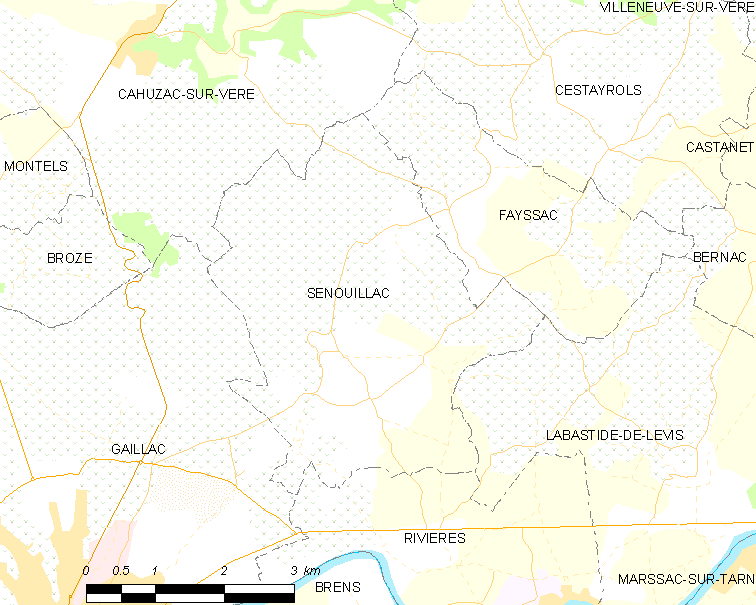 Map of French municipality Senouillac